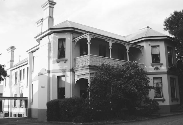 Located at James Ruse Agricultural High School, Felton Road, Carlingford, NSW, Australia. Built for the Felton family in 1885 on their farming property.